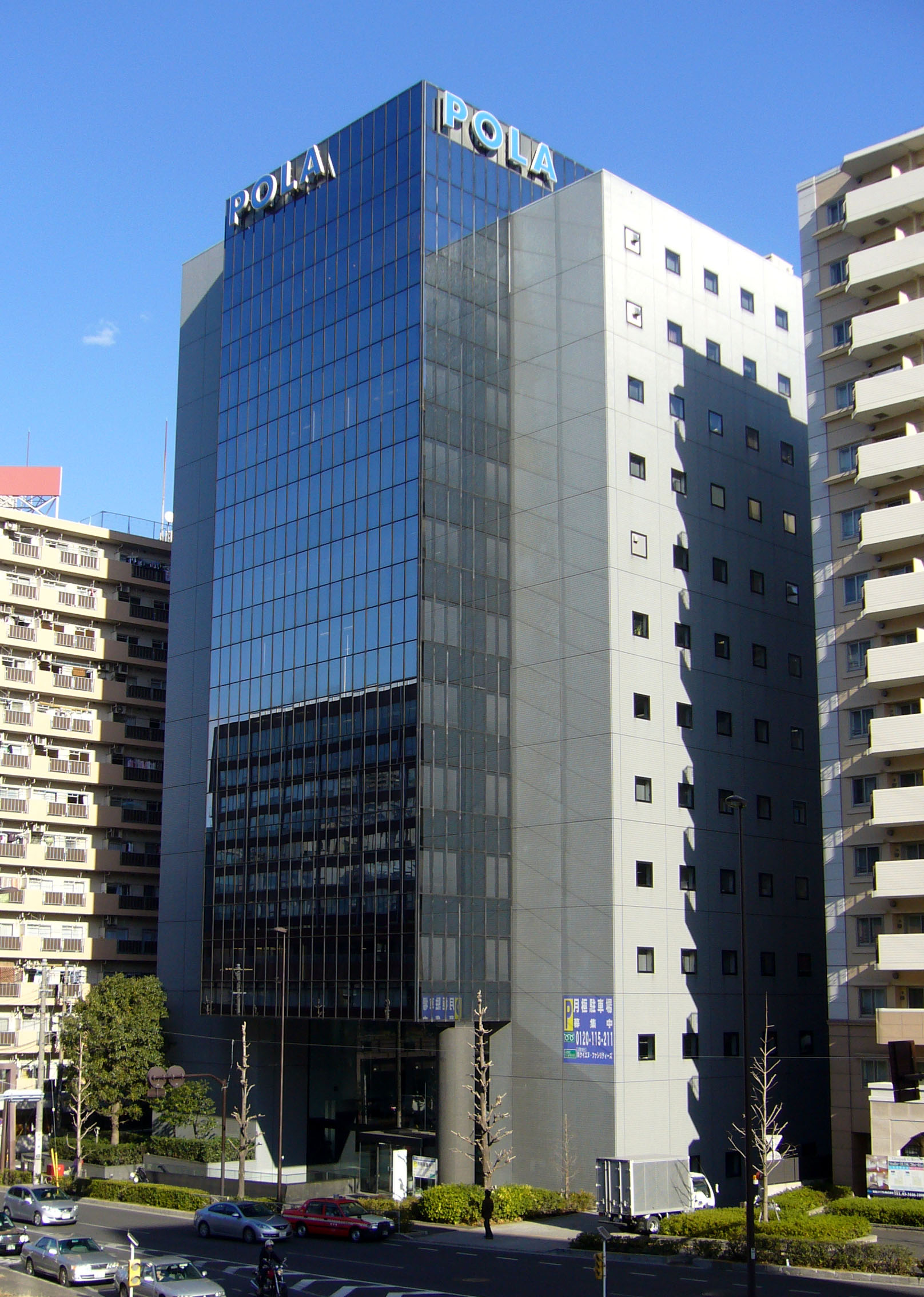 POLA Gotanda Bldg.3 (Office building in Tokyo, Japan)